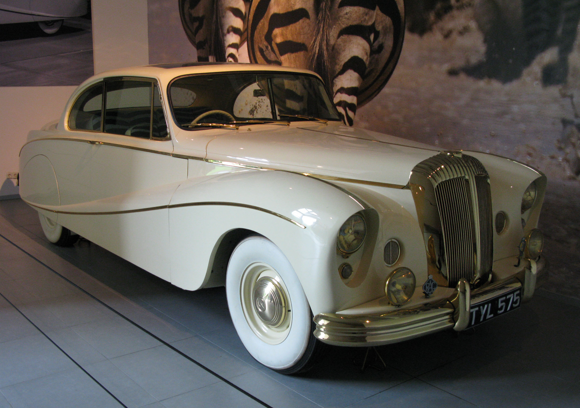 1955 Daimler DK400 "Golden Zebra".